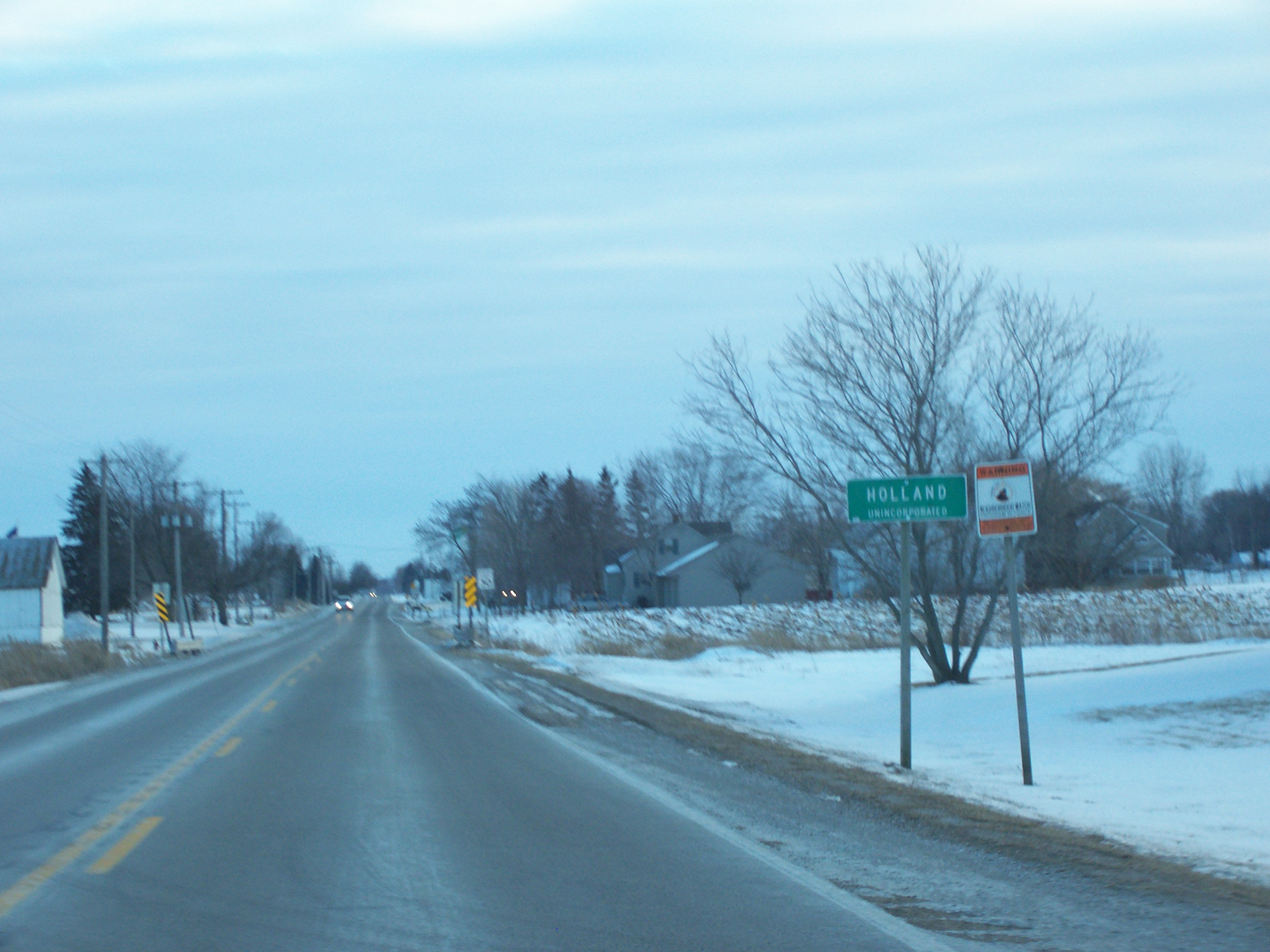 Looking south at the sign for the incorporated village of Holland in the town of Holland, Brown County, Wisconsin, USA.